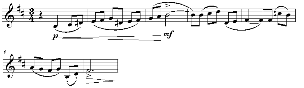 Piano Concerto No. 2 in G major Op. 44 - II Andante non troppo (solo violin piece -several bars)